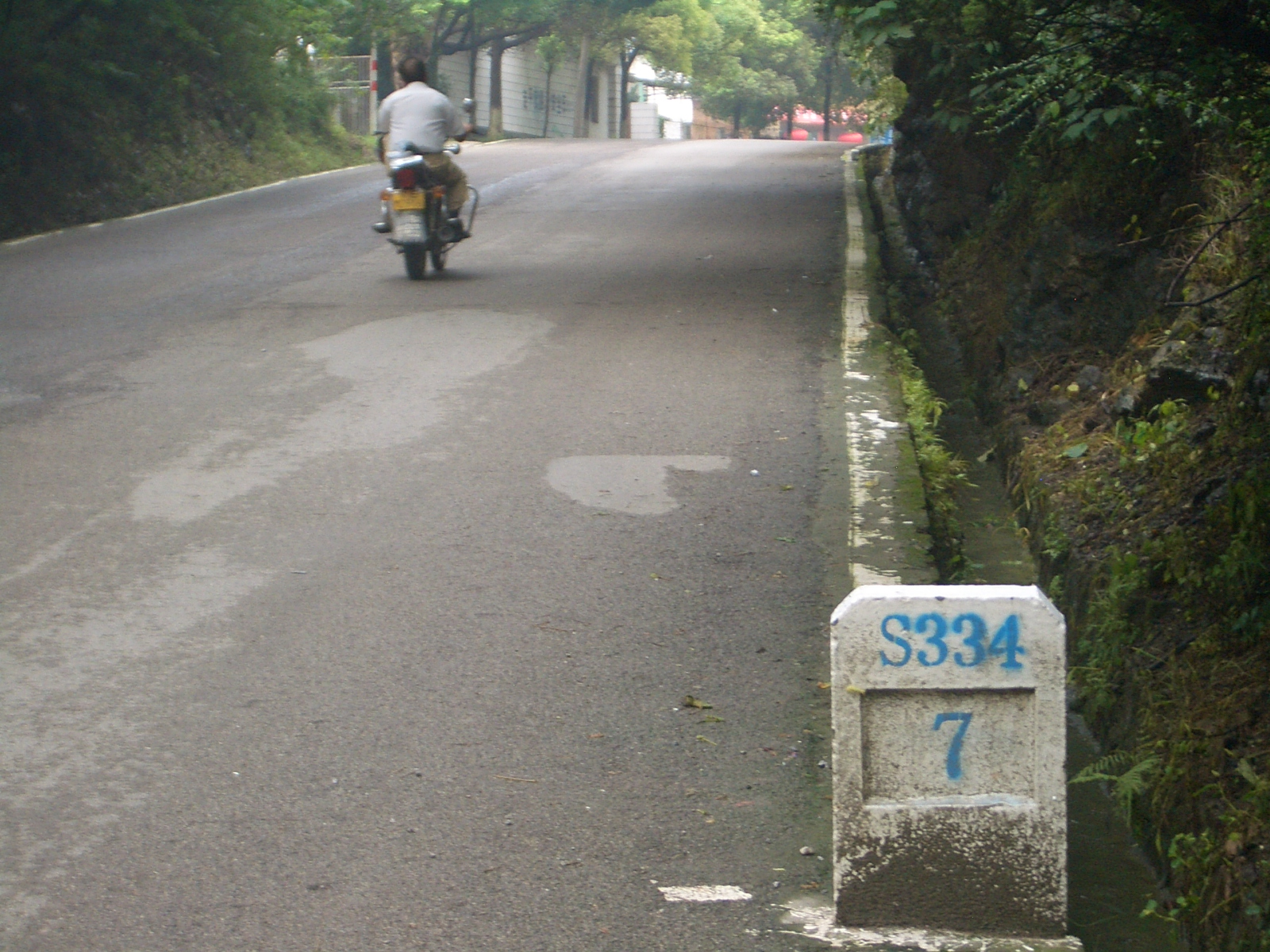 On Hubei Provincial Highway 334, 7km (to the west) from Yichang's center city